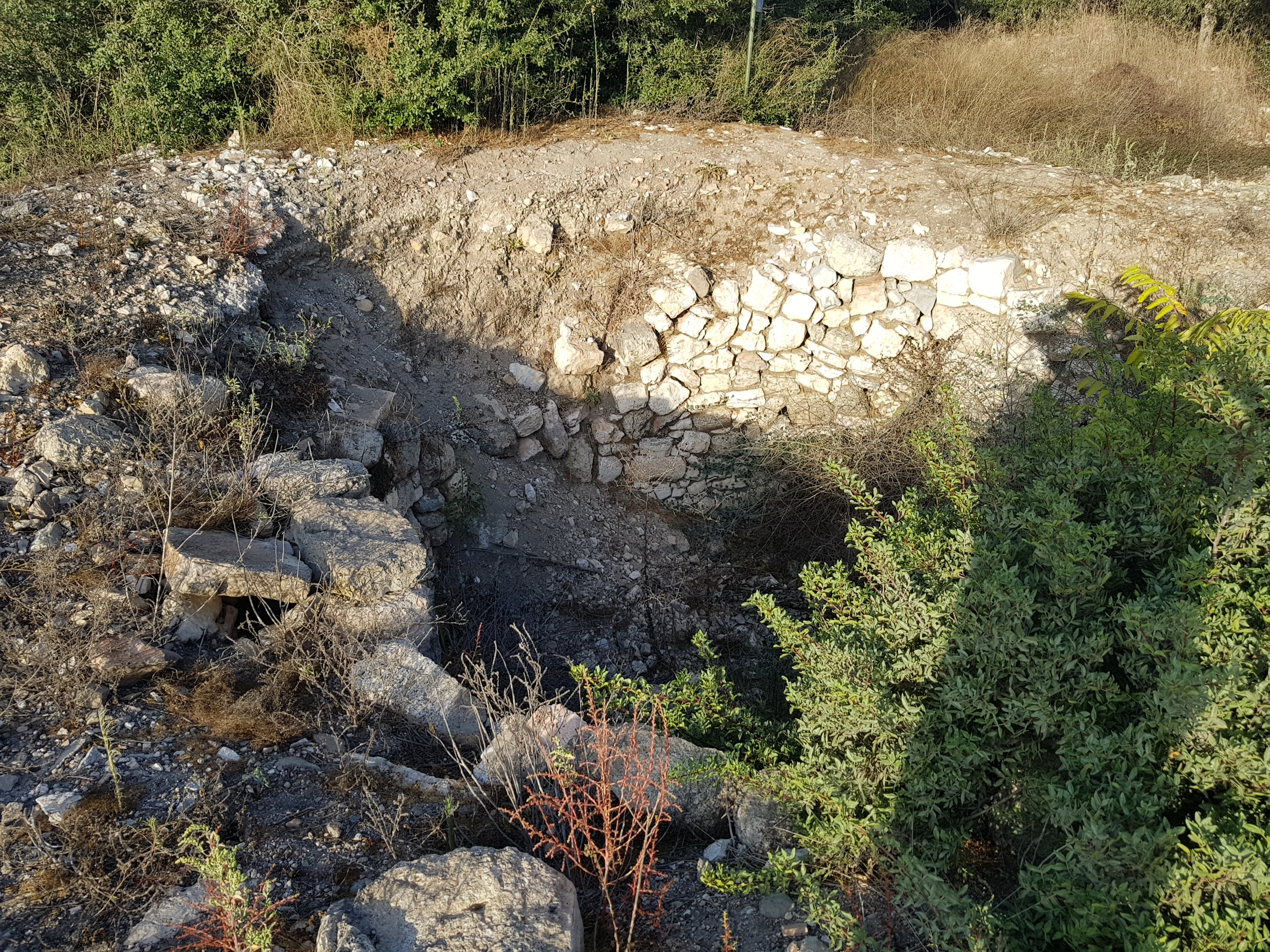 Findings on Hovela Hill14